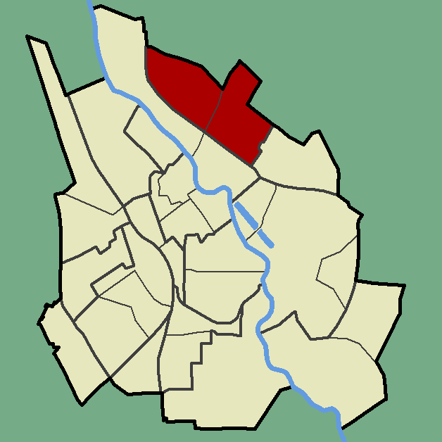 Locator map of Raadi-Kruusamäe, Tartu, Estonia.